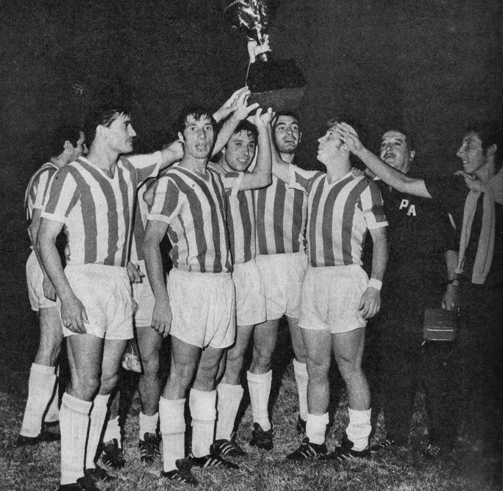 Part of the Estudiantes de La Plata team celebrating after winning the Copa Interamericana.